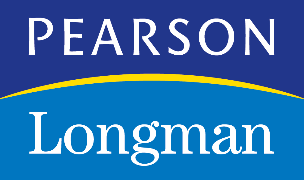 Cropped Pearson Longman logo.